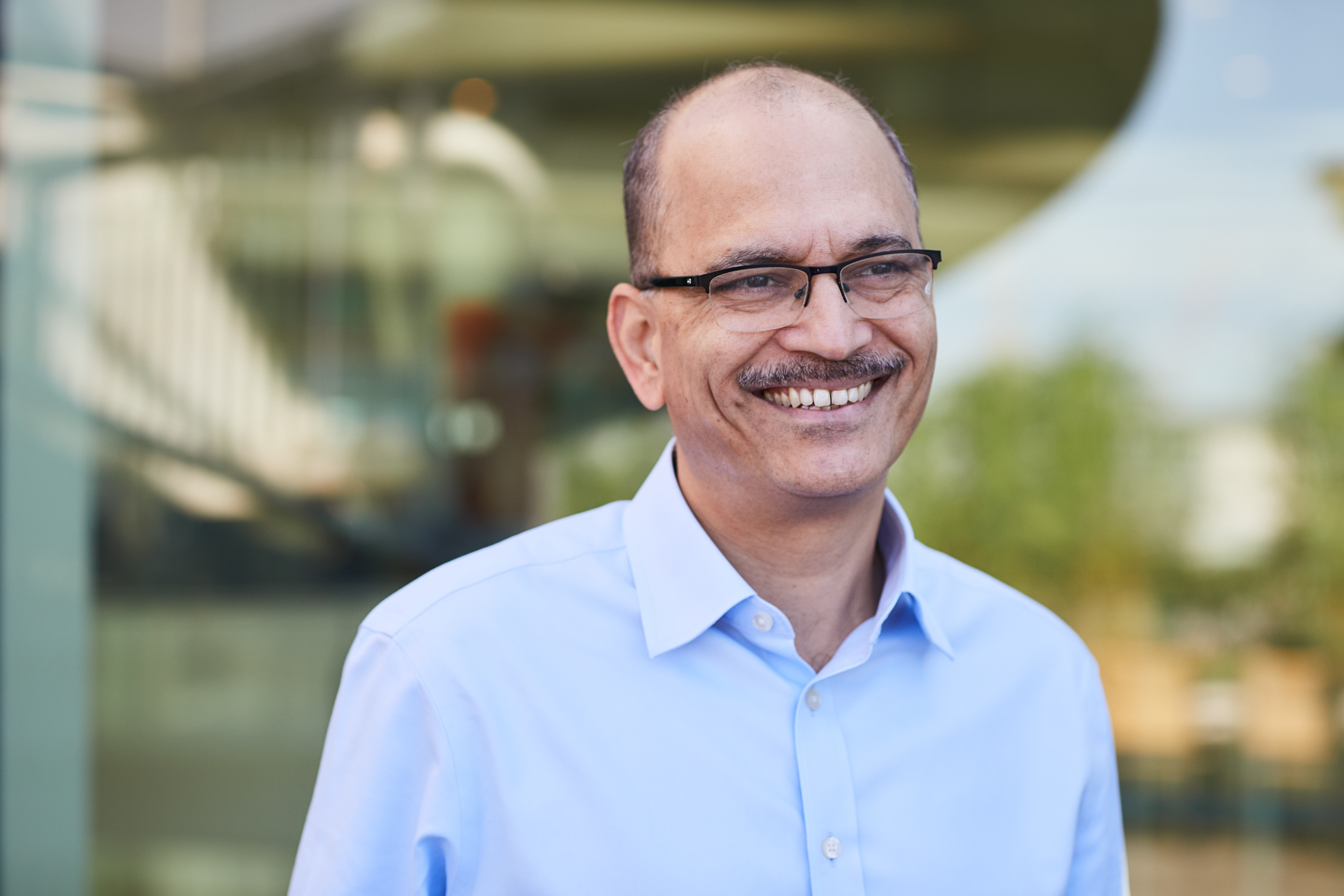 Nitin_Paranjpe during his visit to india. This photo was taken by me. (Gonesh Kartik/CC-BY-4.0) Please provide an attribution if you share this image to somewhere else.